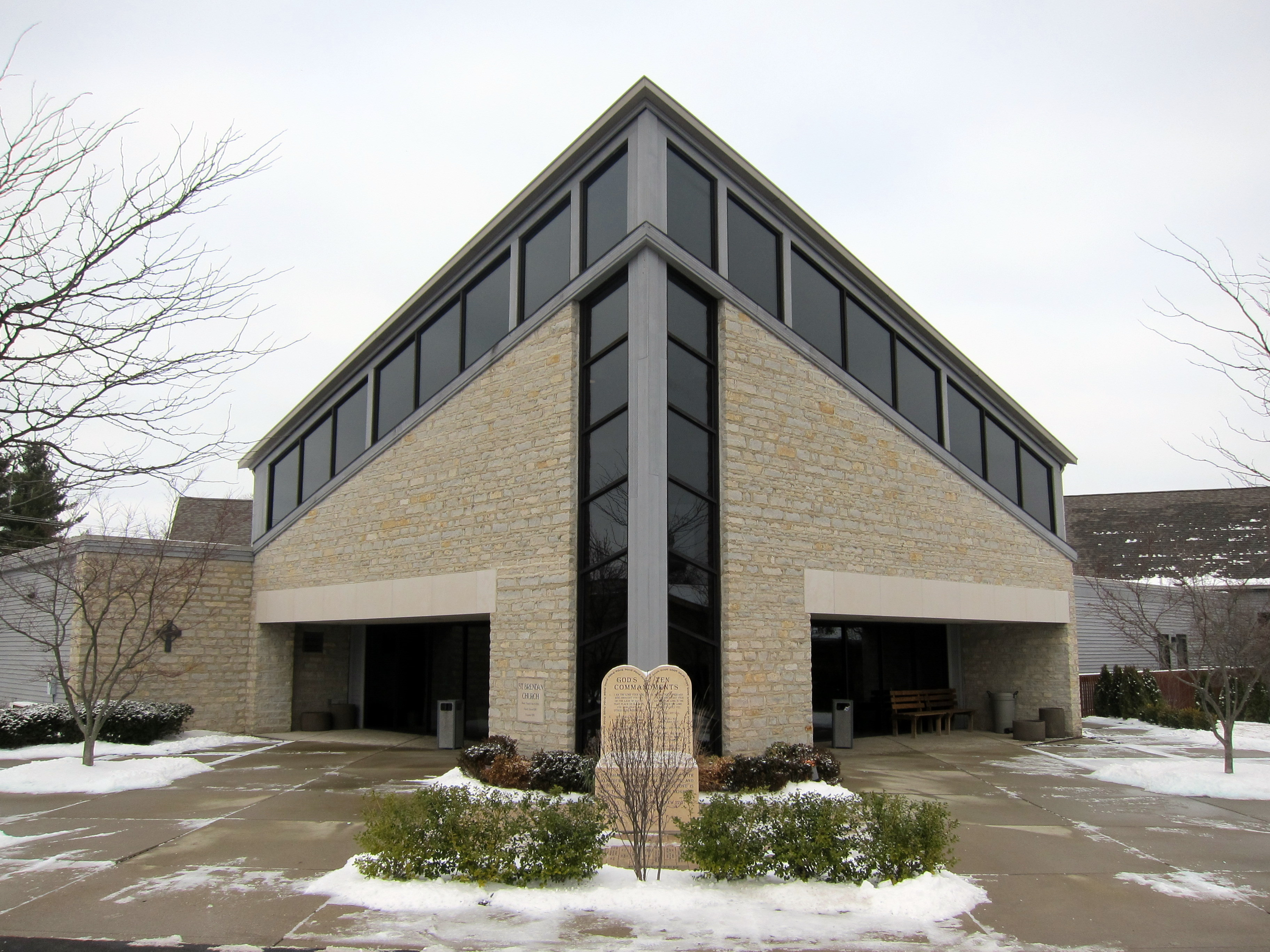 Saint Brendan the Navigator (Hilliard, Ohio), exterior, entrance